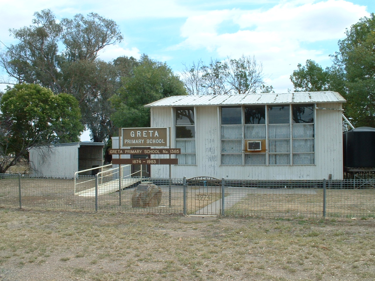 The old primary school at Greta, Victoria